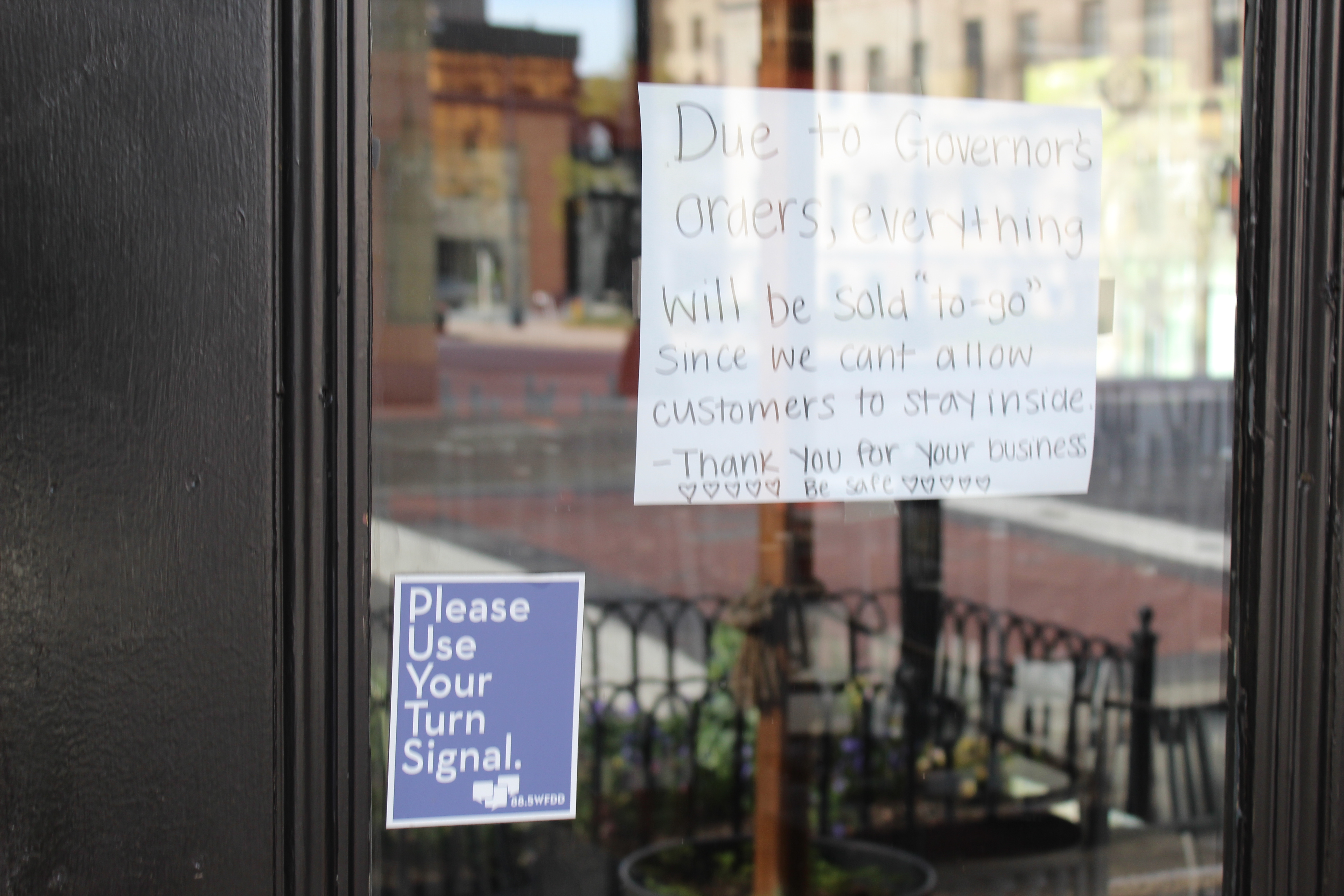 North Carolina law requires restaurants to be to-go and/or delivery only to prevent the spread of the coronavirus. This sign informs customers of that rule